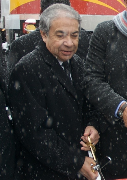 New Mexico Railrunner makes its Inaugural train service into Santa Fe with local and state politicians and invited guests. Governor Bill Richardson, nominated US Secretary of Commerce, rode with train from Albuquerque with former Governor Tony Anaya, who first suggested the idea of a train between Albuquerque and Santa Fe almost 30 years ago.